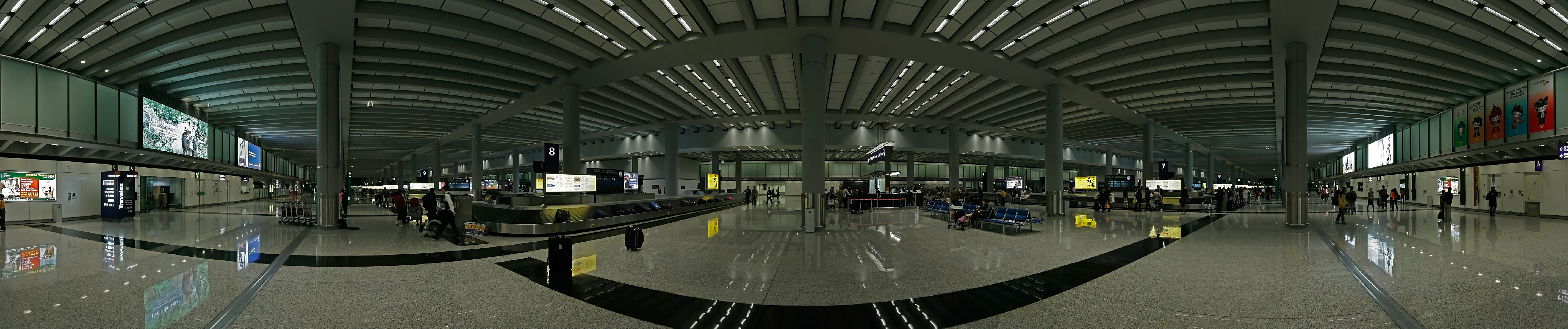 300 degree indoor panorama of baggage claim area at Hong Kong International Airport near midnight.